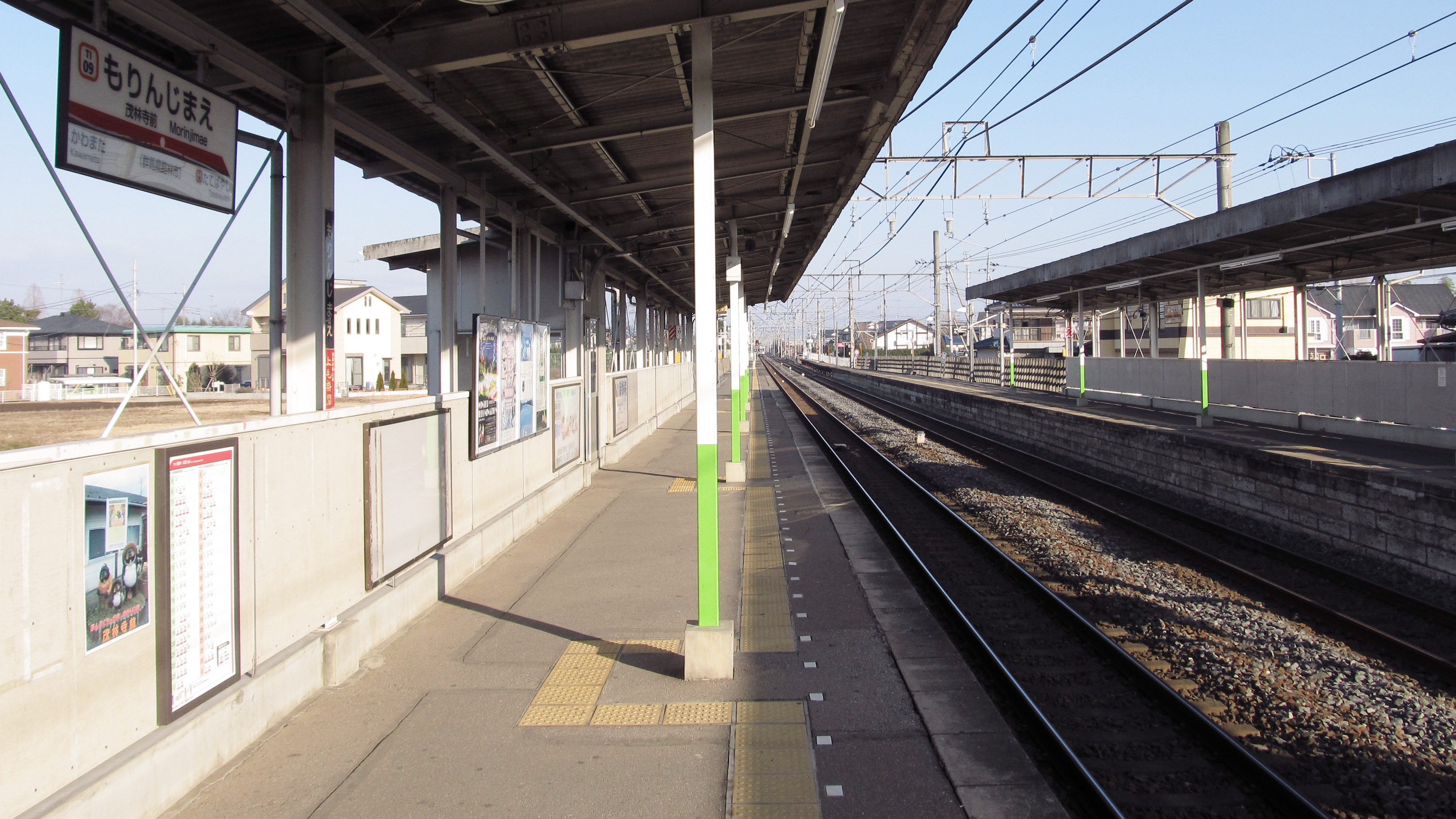 The platforms at Morinjimae Station on the Tobu Railway Isesaki Line in Tatebayashi city, Gumma prefecture, Japan